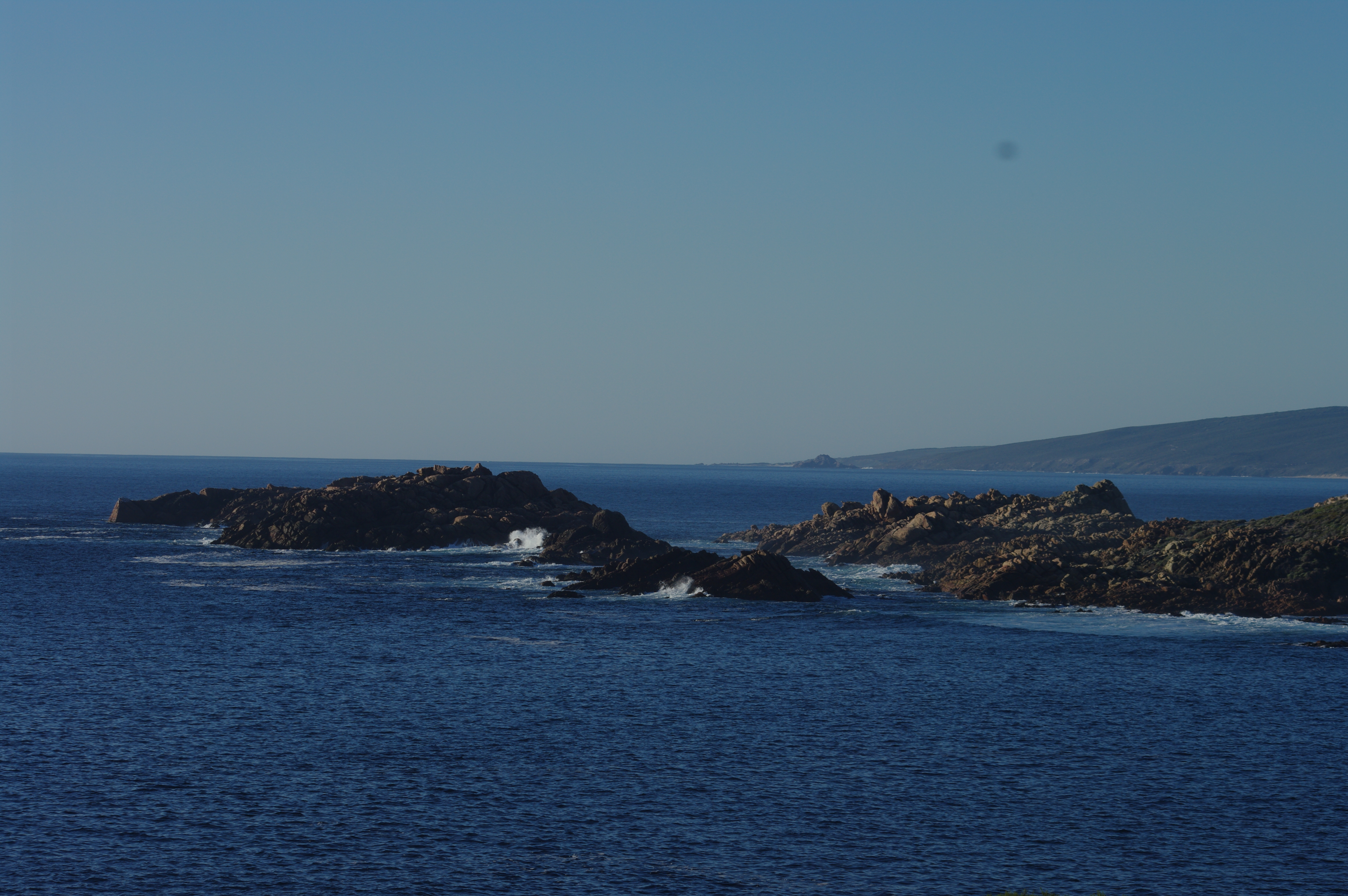 Canal Rocks, near Wydalup Beach